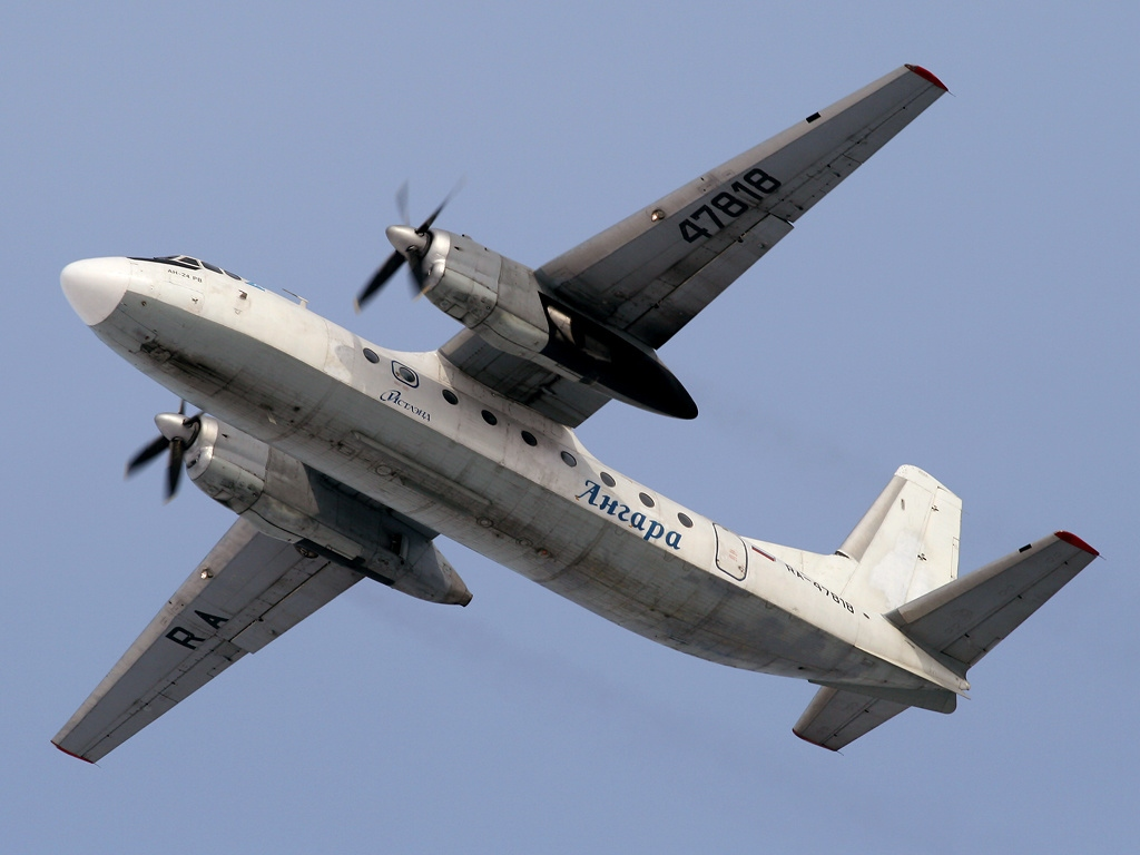 Flight to Gorno-Altaysk. Ex Tatarstan plane.